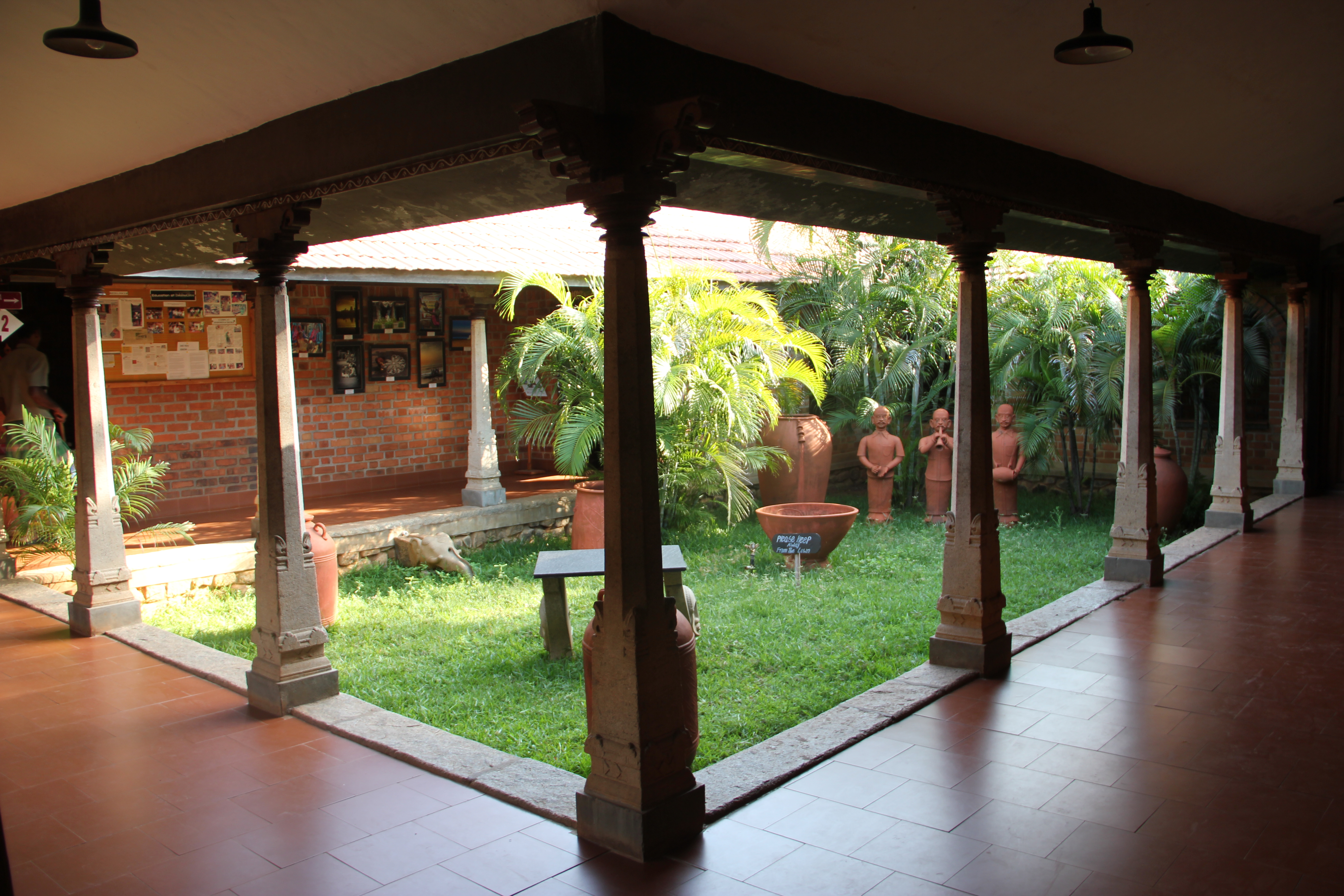 Dakshinachitra Model house by Dr.Benny kuriakose